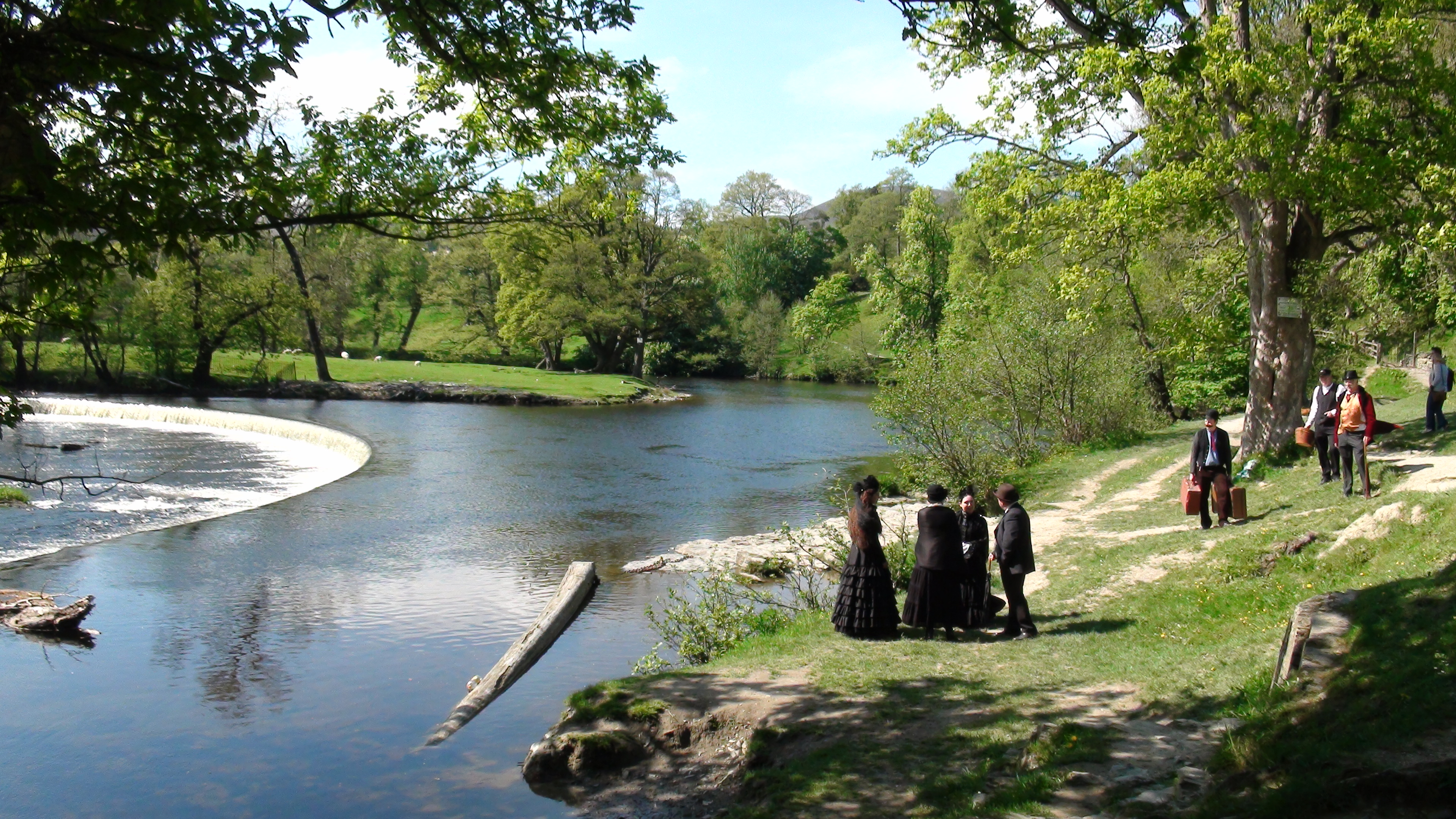 Queen Victoria & Horseshoe Falls